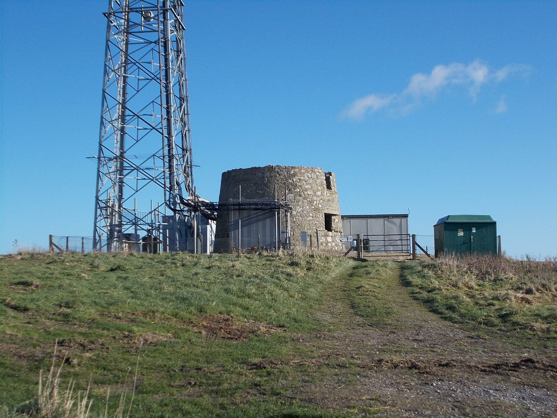 The remains of a lighthouse (stone structure), on St Catherine's Hill, Isle of Wight, UK. Begun in 1785 but never completed, it now lies within the compound of a modern wireless station. It is colloquially known as the 'Salt Cellar' or 'Salt Pot', pairing with the remains of the nearby St Catherine's Oratory, which is known as the 'Pepperpot' on account of its appearance.